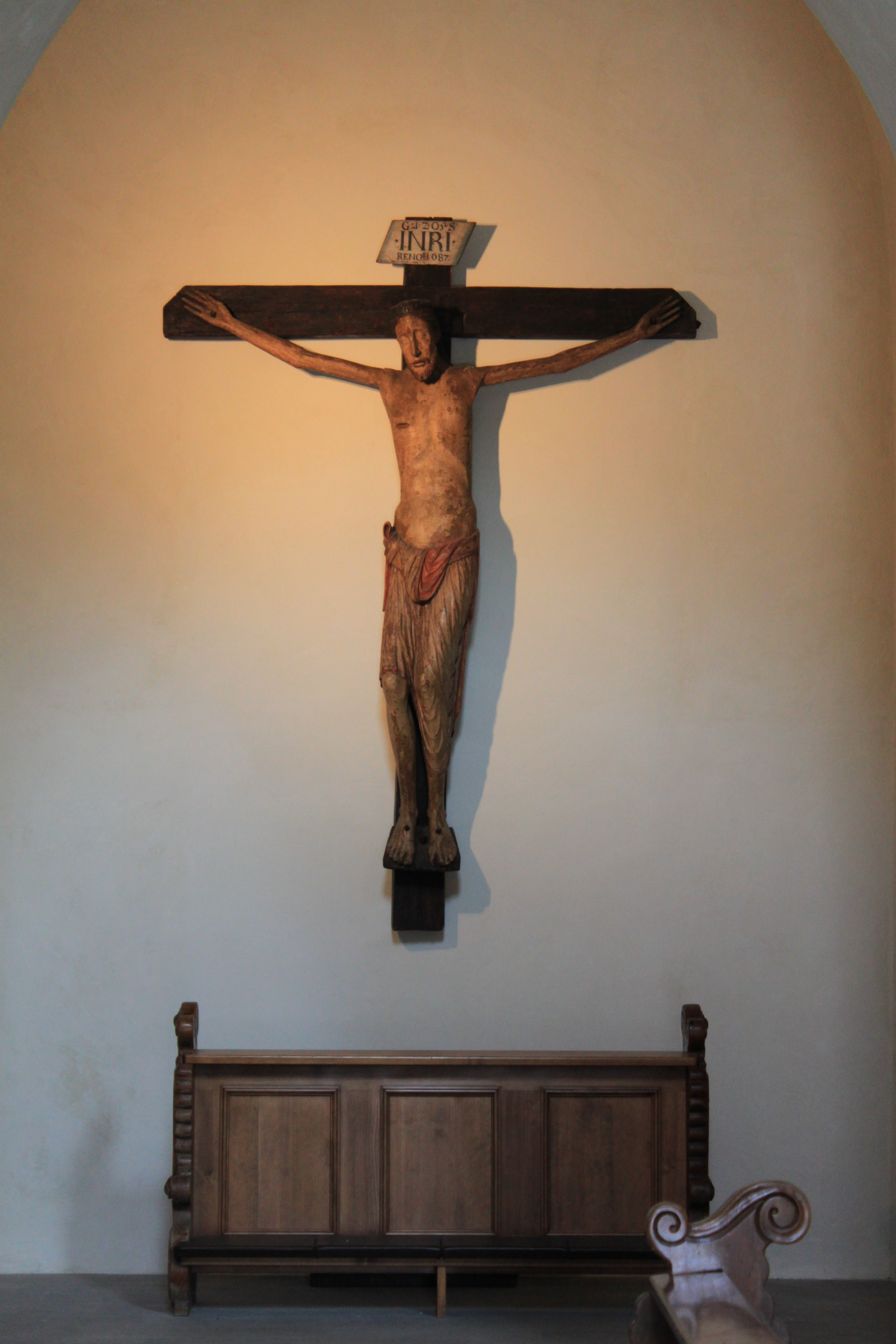 Old Parish Church in Gries Bozen Bolzano - crucifix